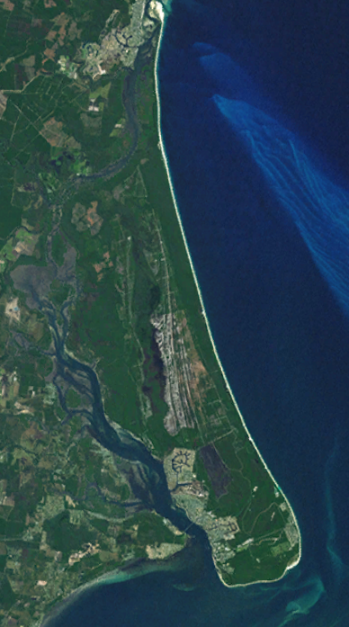 Bribie Island NASA World Wind Landsat montage.